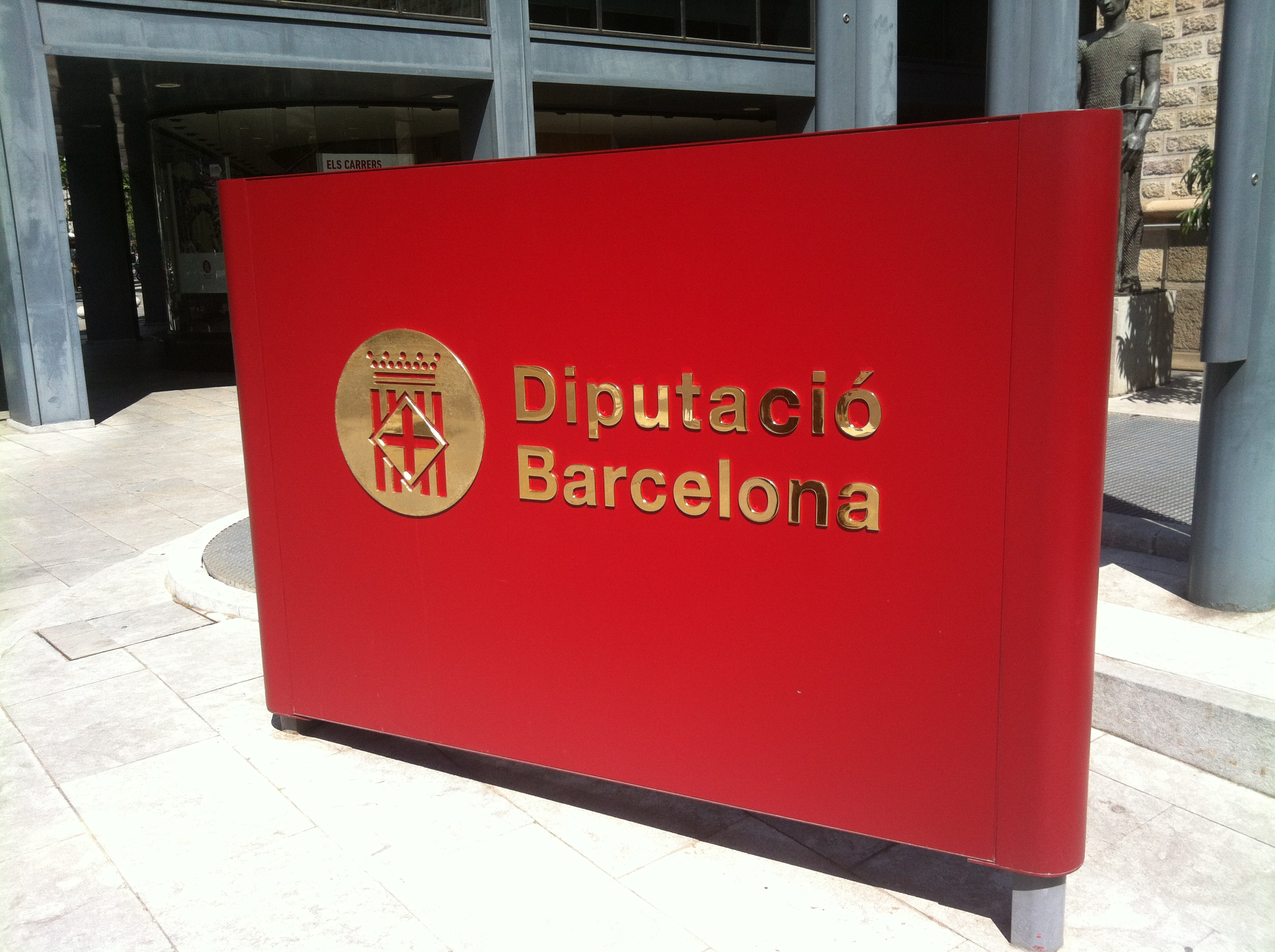 Diputacio de Barcelona